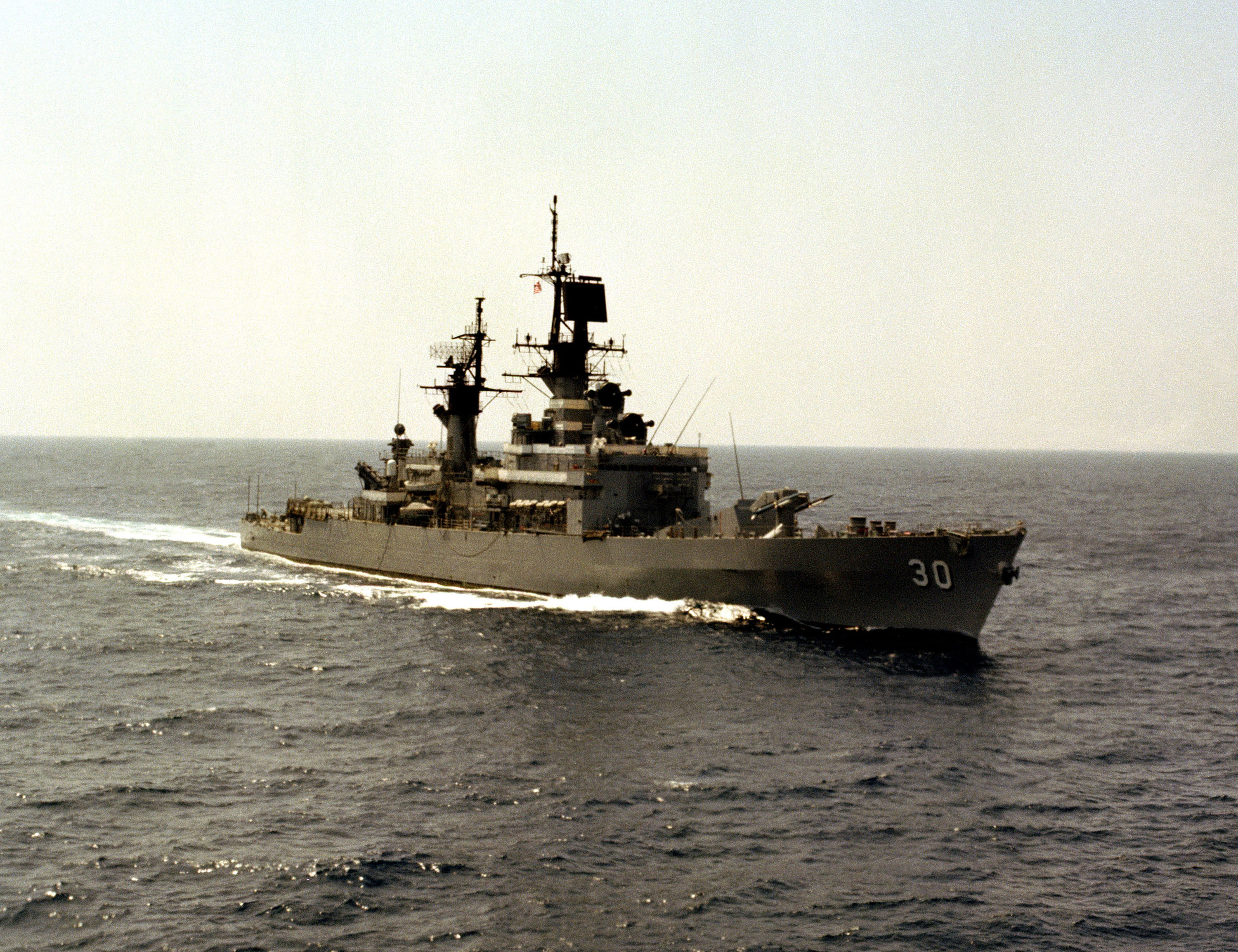 The U.S. Navy guided missile cruiser USS Horne (CG-30) underway in the Pacific Ocean on 29 June 1983.